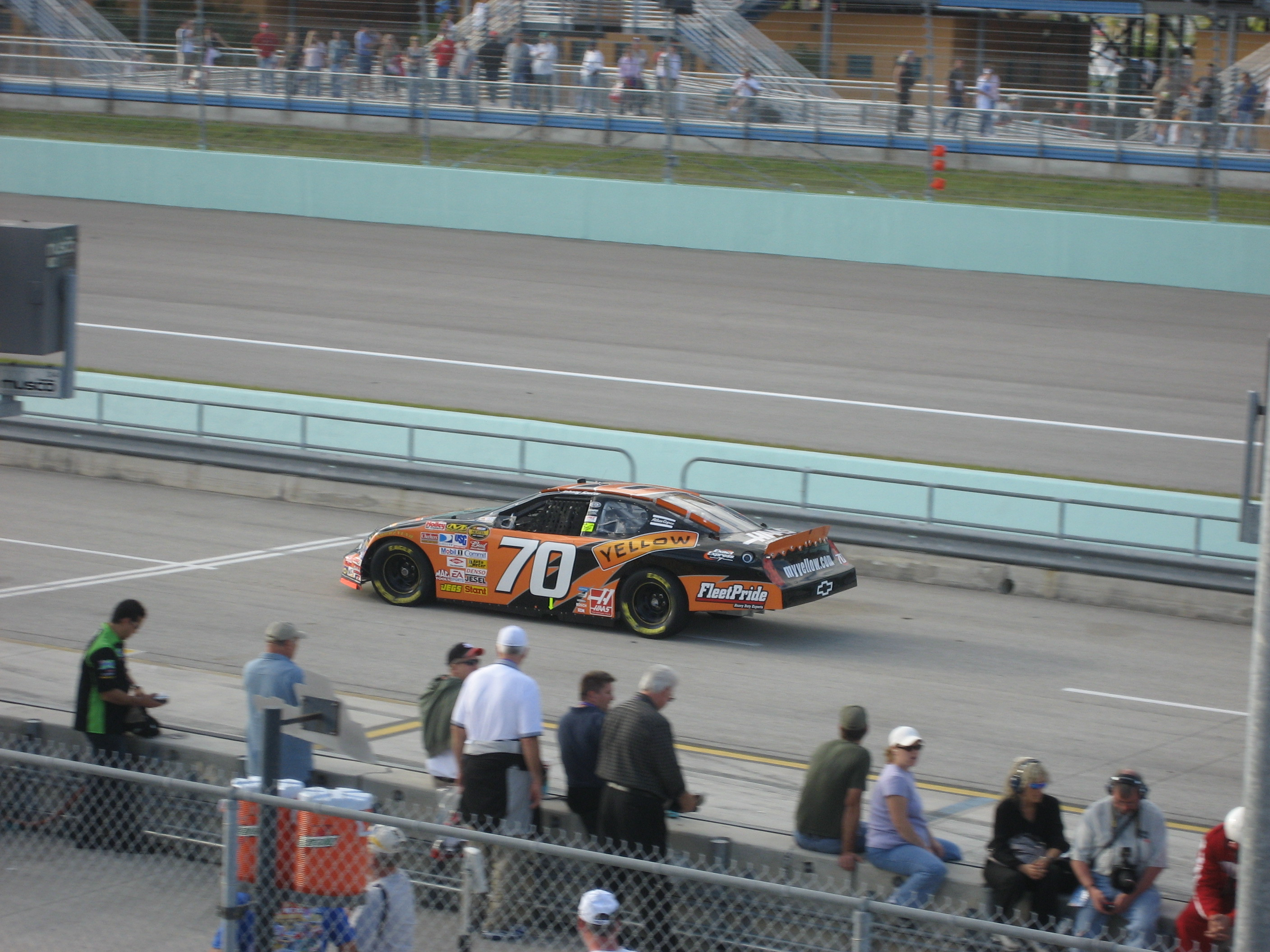 Johnny Sauter practices the No. 70 Chevrolet before the 2007 Ford 400 at Homestead-Miami Speedway